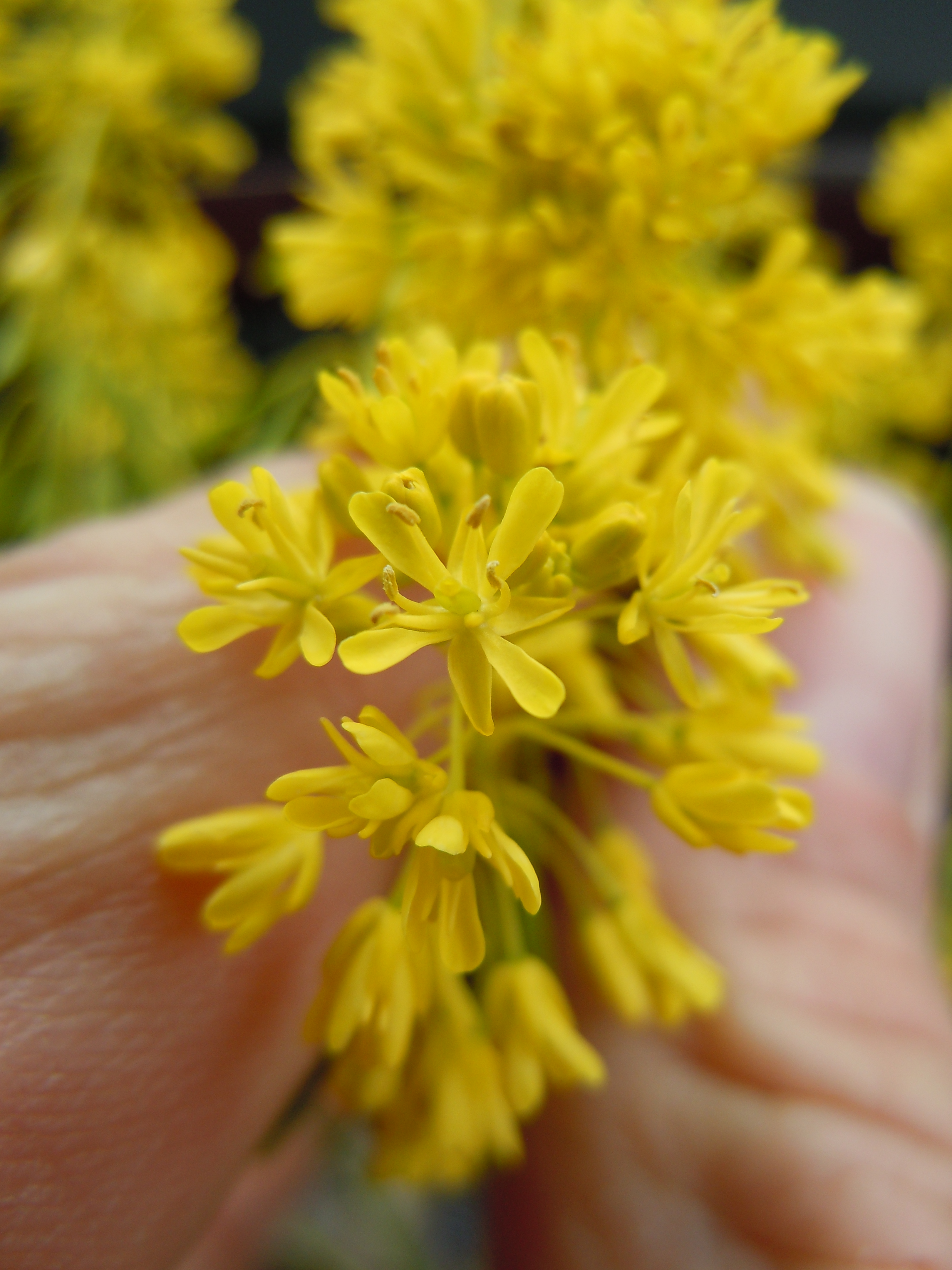 This putative invasive species grows strictly in highly disturbance-prone settings.